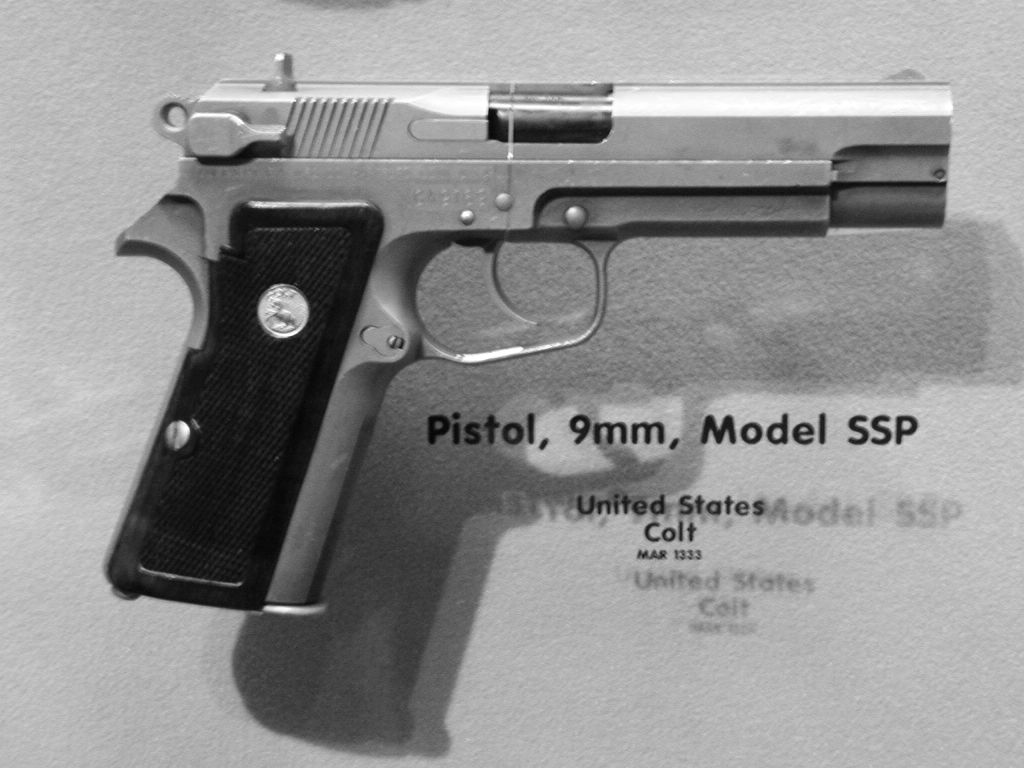 This is the Colt Stainless Steel Pistol (SSP) which was submitted to the XM9 Handgun Trials